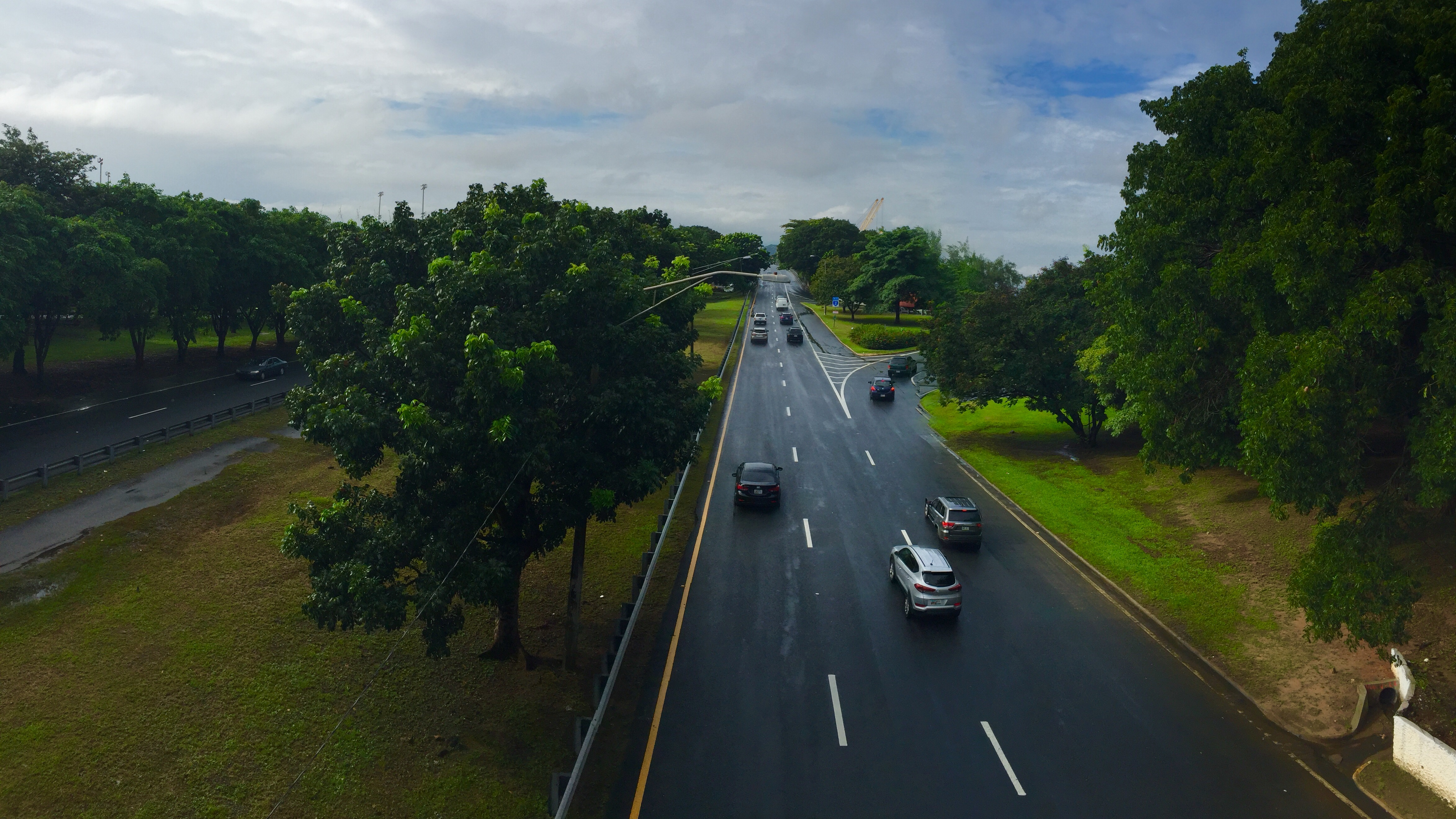 Highway PR-2 leaving Santurce